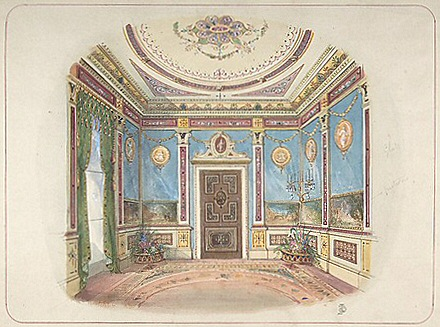 Design for a room by John Dibblee Crace (1838-1919). Watercolour, pen and brown ink over graphite. Metropolitan Museum of Art 67.736.9.